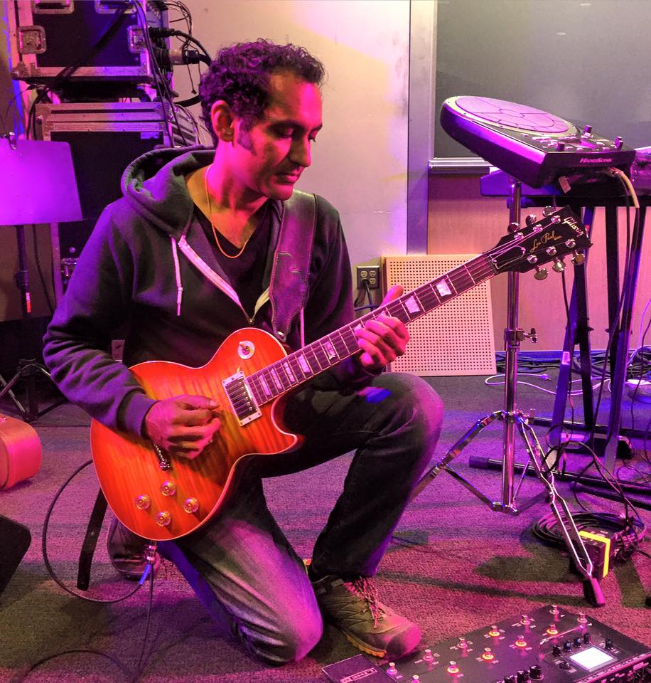 Vivek Maddala during a soundcheck prior to performance